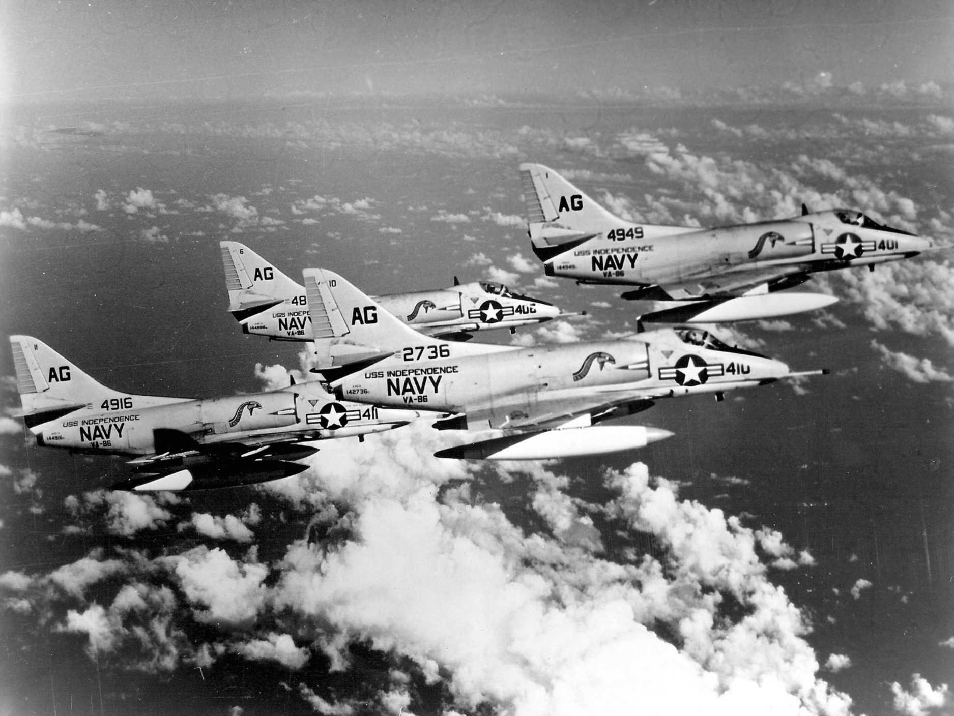 Four U.S. Navy Douglas A4D-2 Skyhawks (BuNos 142736, 144916, 144888, 144949) of Attack Squadron VA-86 "Sidewinders" flying in formation. VA-86 was assigned to Carrier Air Group 7 (CVG-7) aboard the aircraft carrier USS Independence (CVA-62).